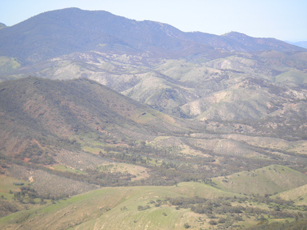 Lookout from Devil’s Peak. It shows results of the rock layers were squeezed and folded into a long mountain chain in Flinders Ranges.